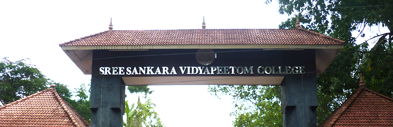 Ssv college valayanchirangara picture of main gate